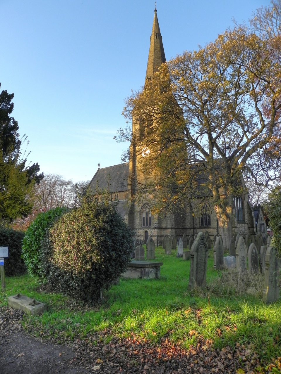 St George's parish church, Poynton, Cheshire, seen from the southeast